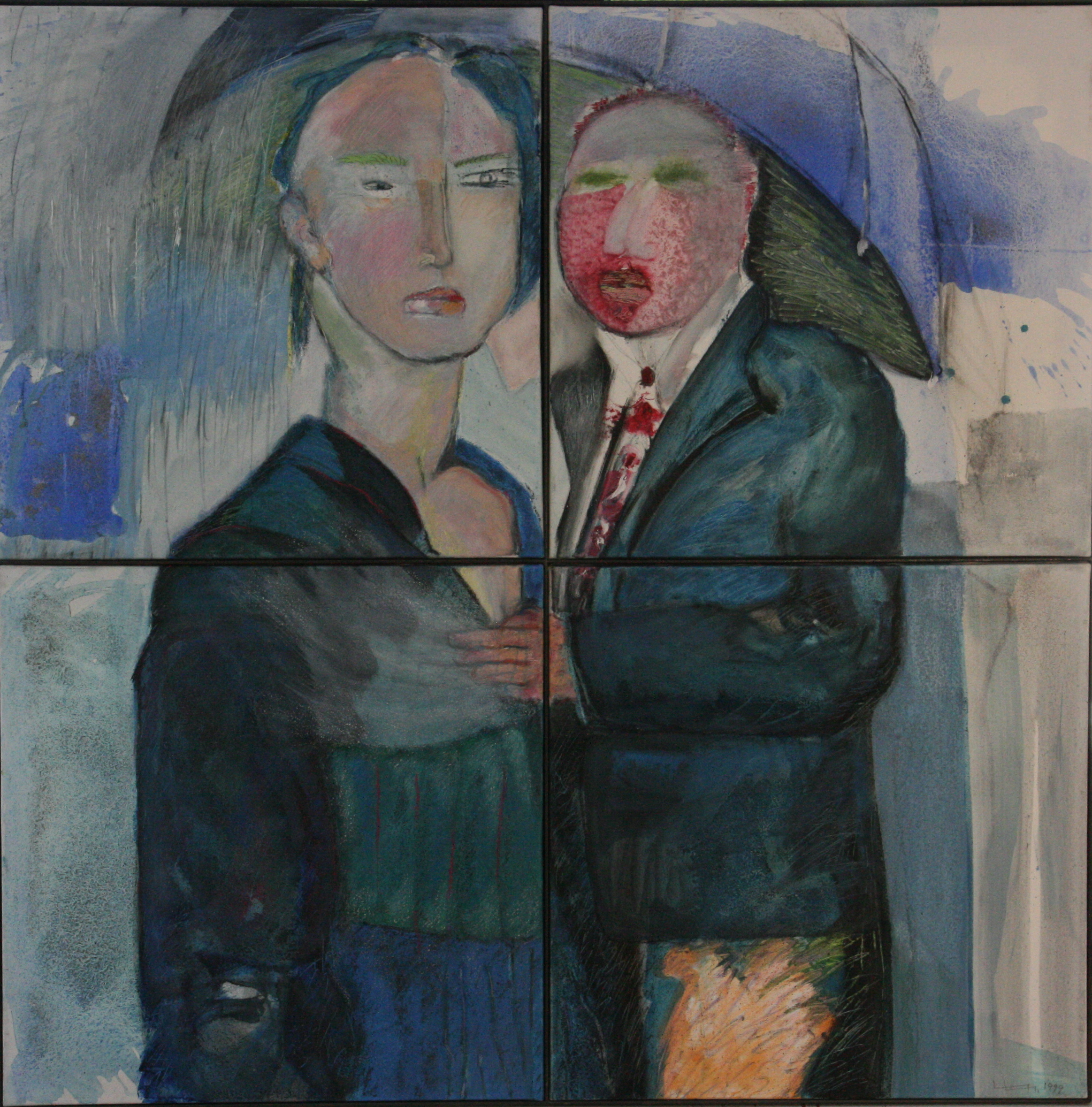 The Couple, The Impossibility to Make It, :ModulArt painting by Leda Luss Luyken